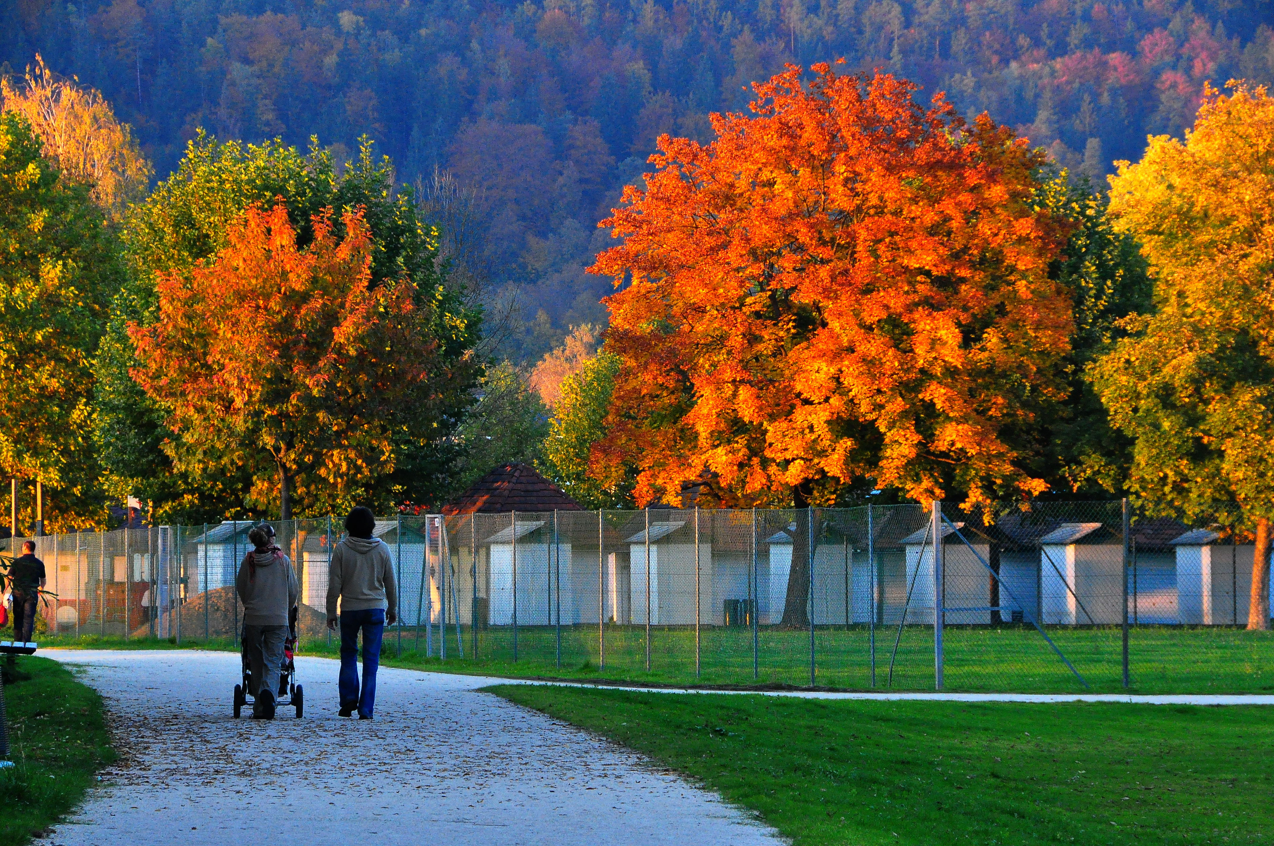 Autumn walk on the beach in Klagenfurt on the Lake Woerth, Carinthia, Austria